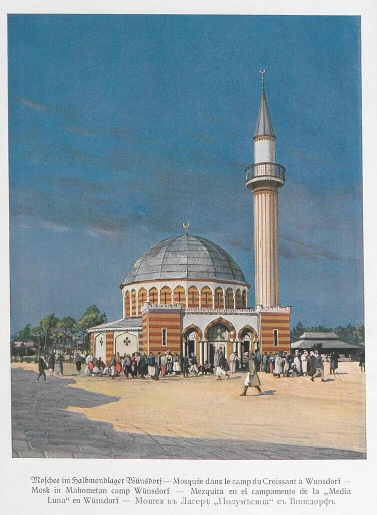 Mosque in Wünsdorf (Zossen), 20 km from Berlin (Germany). Built around 1915 for a POW-camp. Destroyed around 1930. Image from the book Die Kriegsgefangenen in Deutschland (Siegen, 1915) by Alexander Backhaus (1865-1927). Name of the painter is not mentioned in the book.